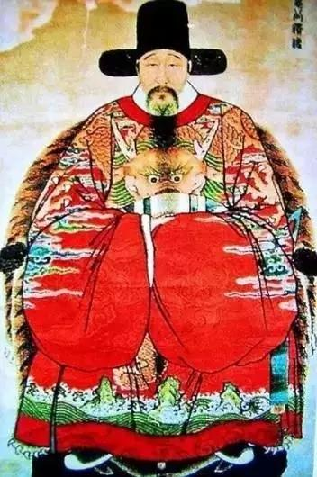 Zhang Juzheng (Chinese: 張居正; 1525–1582), courtesy name Shuda (叔大), pseudonym Taiyue (太岳), was a Chinese reformer and statesman who served as Grand Secretary (Shǒufǔ) in the late Ming dynasty during the reigns of the Longqing and Wanli emperors. He represented what might be termed the "new Legalism" aiming to ensure that the gentry worked for the state. Alluding to performance evaluations, he said "Everyone is talking about real responsibility, but without a clear reward and punishment system, who is going to risk life and hardship for the country?" One of his chief goals was to reform the gentry and rationalize the bureaucracy together with his political rival Gao Gong, who was concerned that offices were providing income with little responsibility. Taking the Emperor Hongwu as his standard and ruling as de facto Prime Minister, Zhang's true historical significance comes from his centralization of existing reforms, positing the reformative agency of the state over that of the gentry - the "Legalist" idea of the sovereignty of the state.